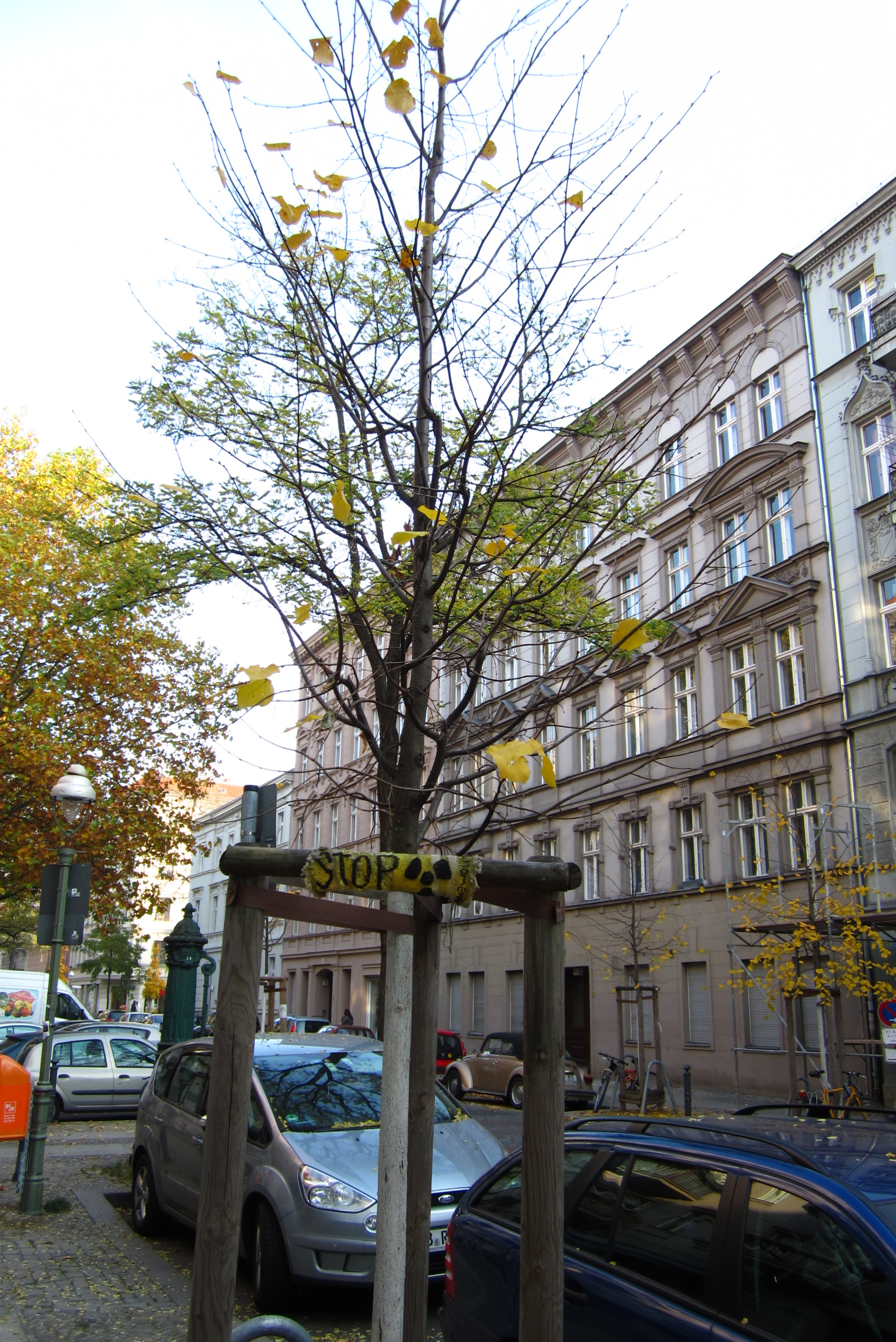 Anti-Atom-Knitting in Berlin-Charlottenburg.